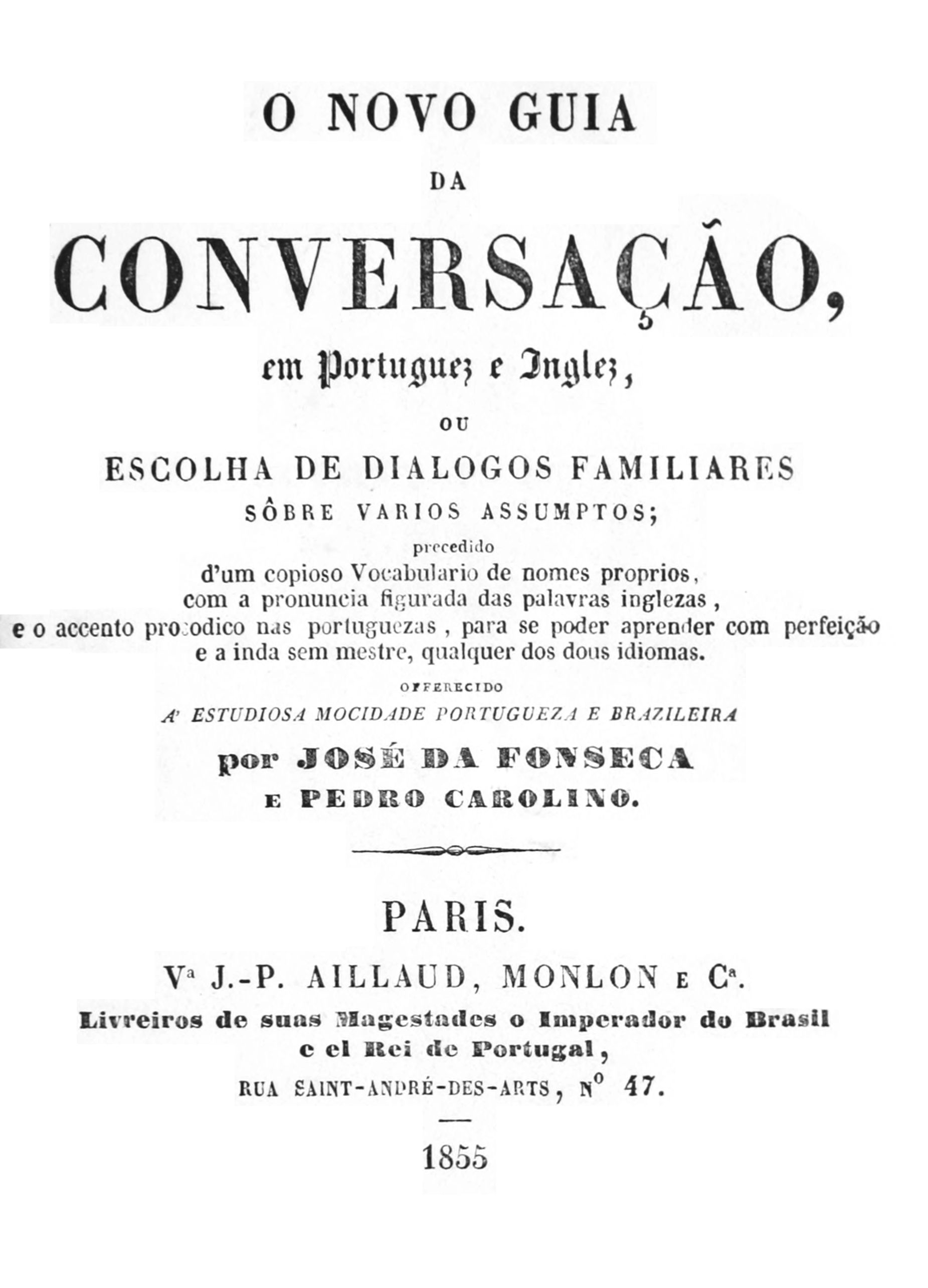 Title page